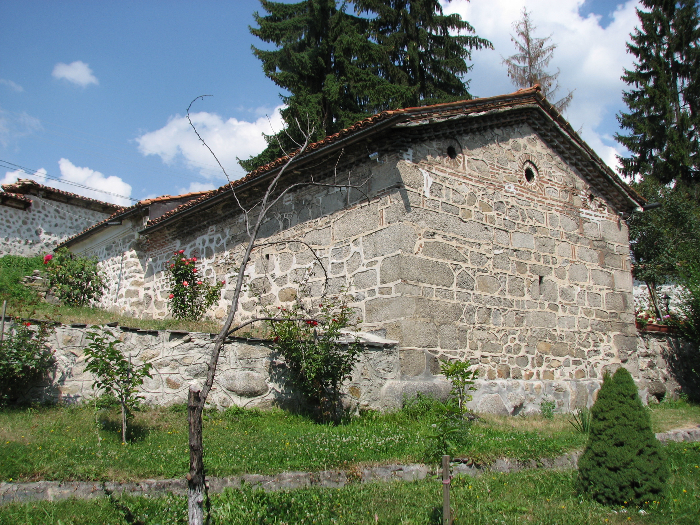 Church "St. Teodor Tiron and St. Teodor Stratilat", Dobarsko, Bulgaria.